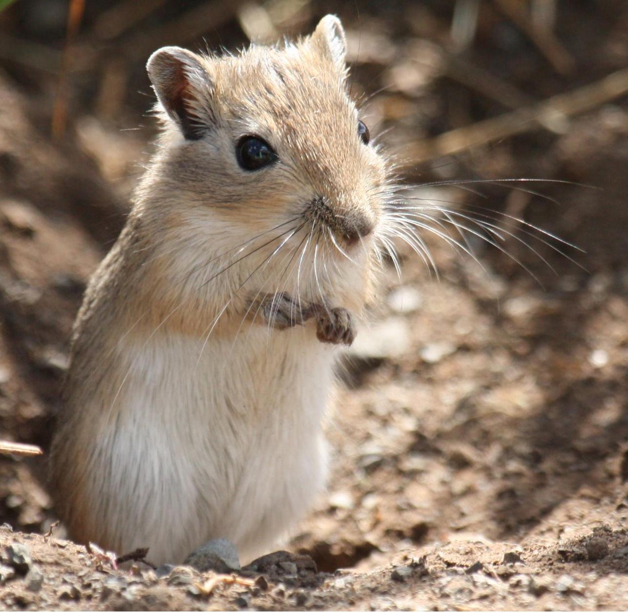 Meriones unguiculatus This is the wild ancestor of the pet gerbil.